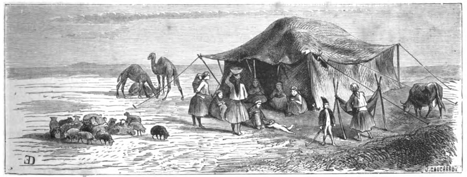 Camp of Illyates, in the plain of Varamin.